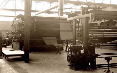 مطابع جريدة فلسطين